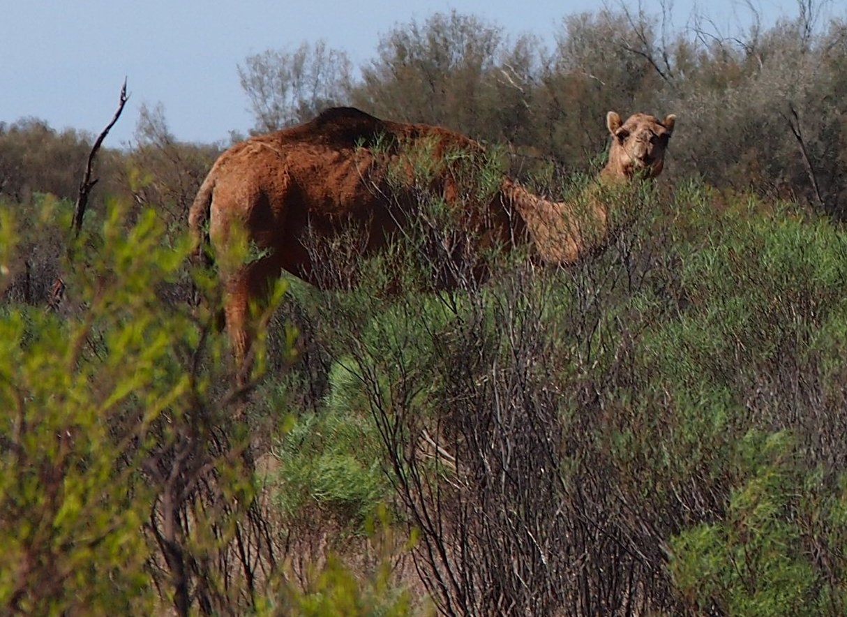 Feral camel, Central Australia